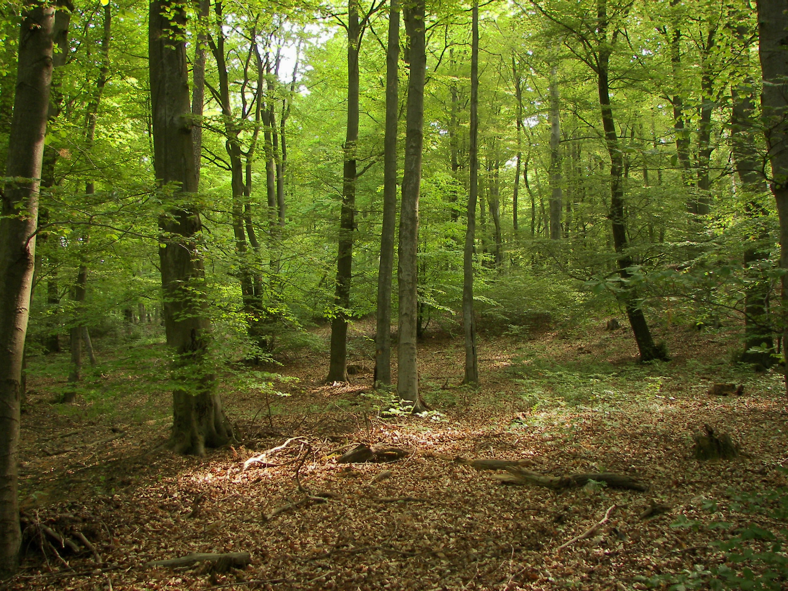 Kellerwald near Vöhl-Schmittlothheim, Hesse, Germany